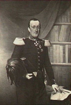 General-major Delprat, likely Isaäc Delprat.